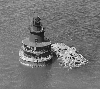 Deer Island Lighthouse, Boston Harbor, Massachusetts, USA, Original 1890 Structure. This structure existed 1890-1982.